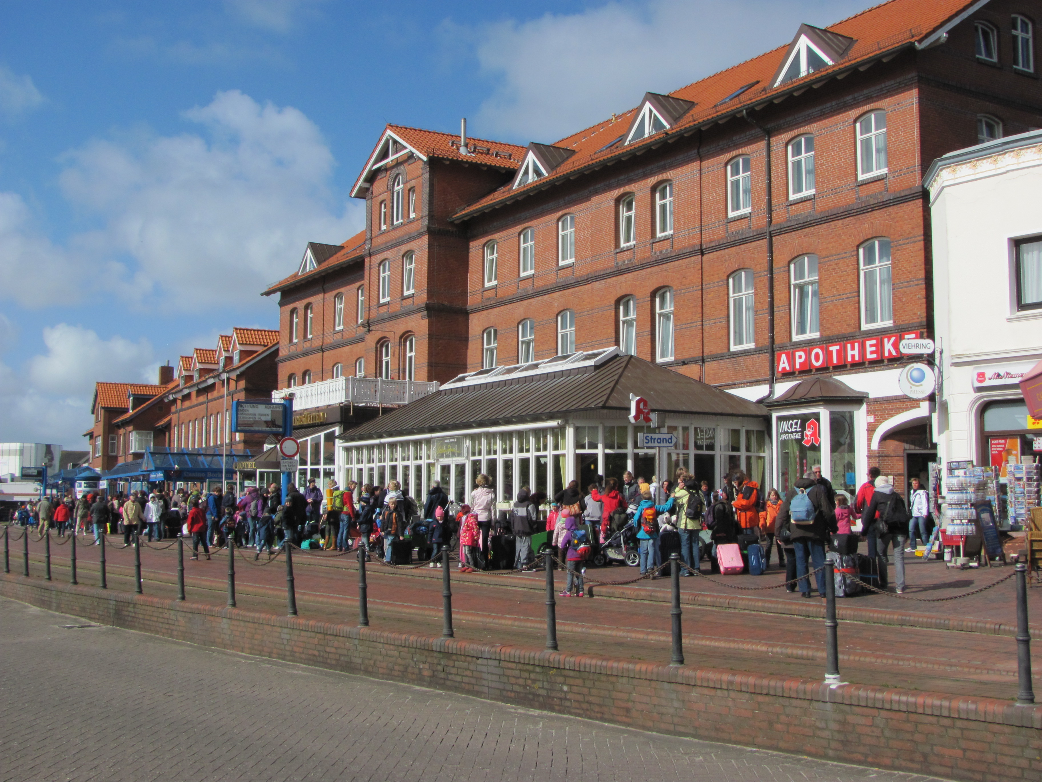 Borkum rly station